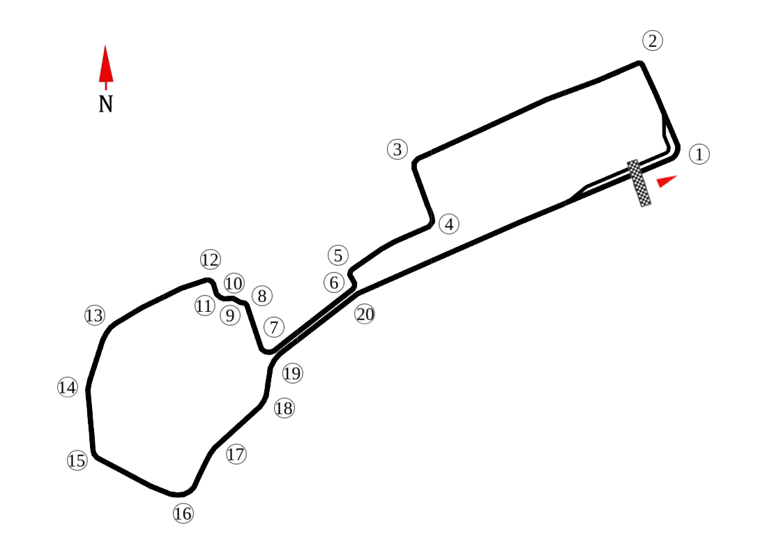 Baku Formula 1 Street Circuit 2016. Revised layout per official venue web site: (event-guide/circuit-map), which moves turns 3 and 4 one city block west of the previously published layout.